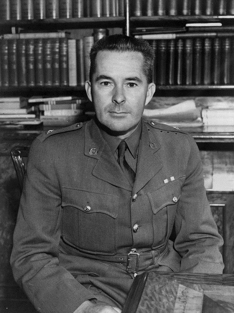 Photo of Clarence Skinner c. 1940-5 Major Clarence Farringdon Skinner, MP for Motueka, in Britain, World War II. Ref: DA-02199-F. Alexander Turnbull Library, Wellington, New Zealand.